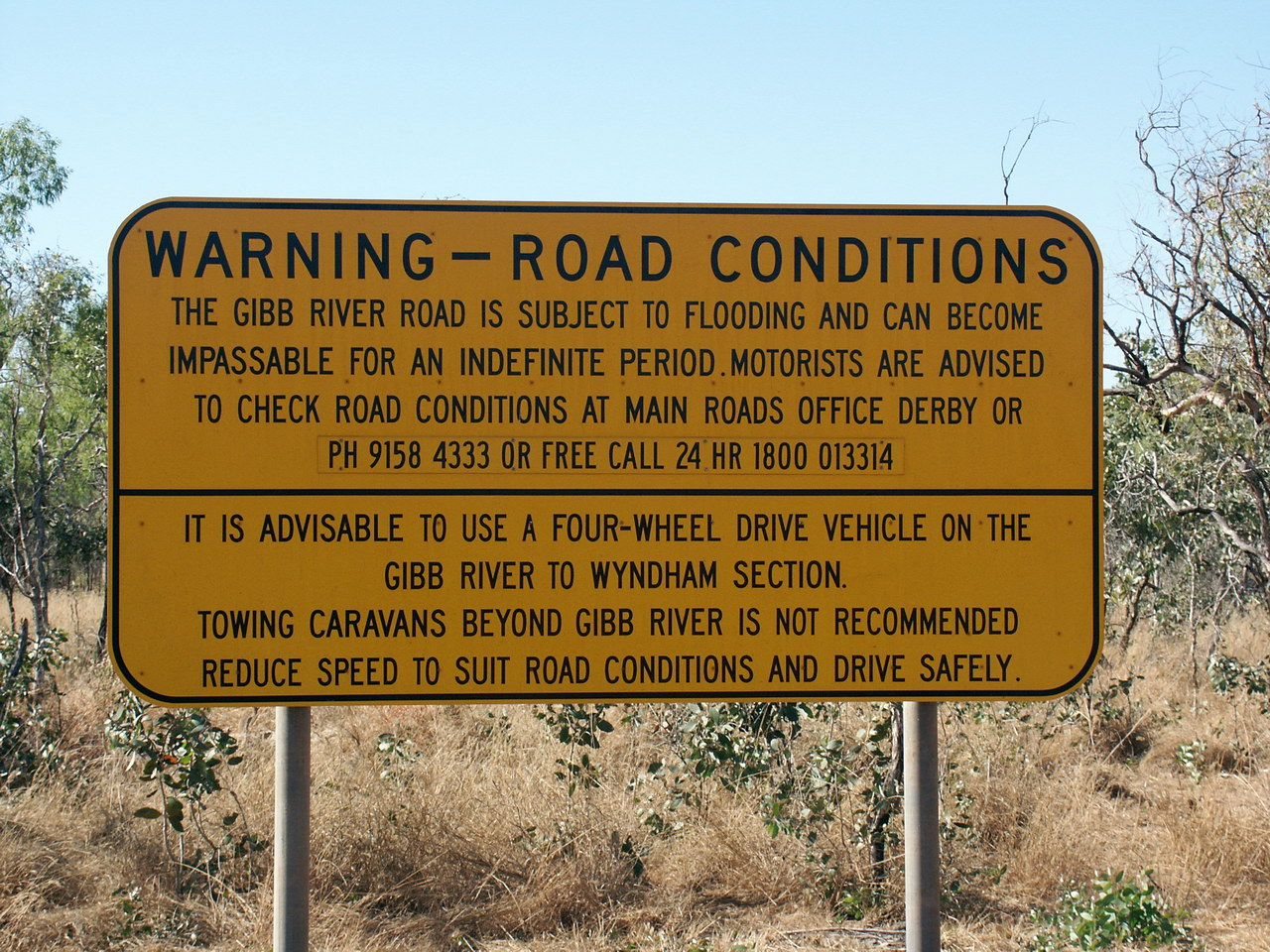 Gibb River Road, Western Australia.